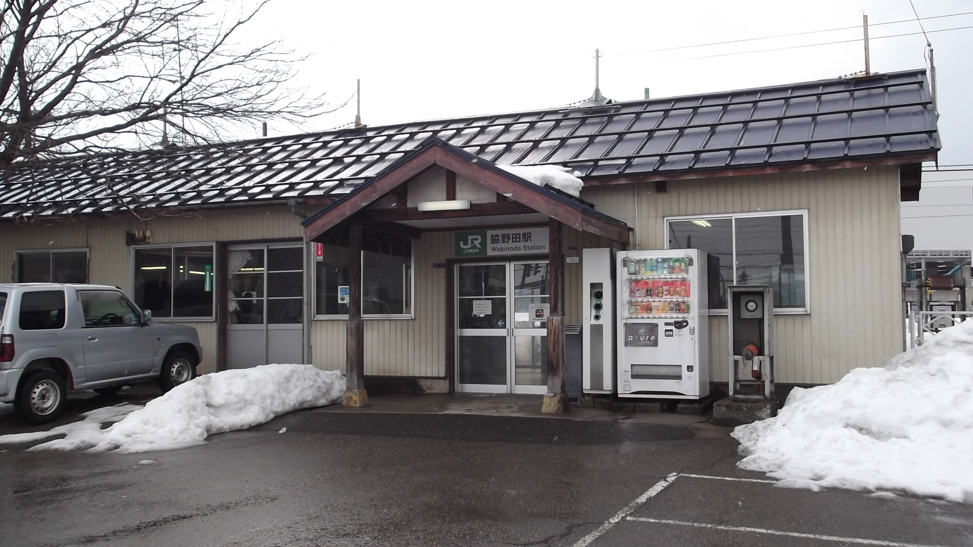 Wakinoda Station entrance